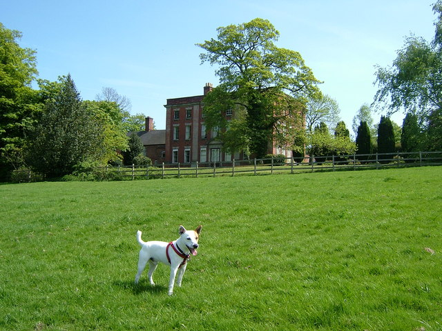 Walton Hall, a stately home near to Walton-on-Trent, Derbyshire, Great Britain, built for William Taylor in 1723. Walton's small but no less impressive hall stands on a small hill overlooking the Trent.